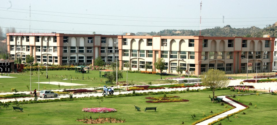 Rayat Campus